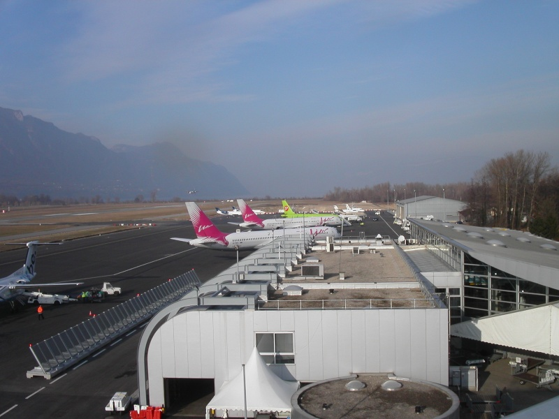 Airplanes at Chambery Airport